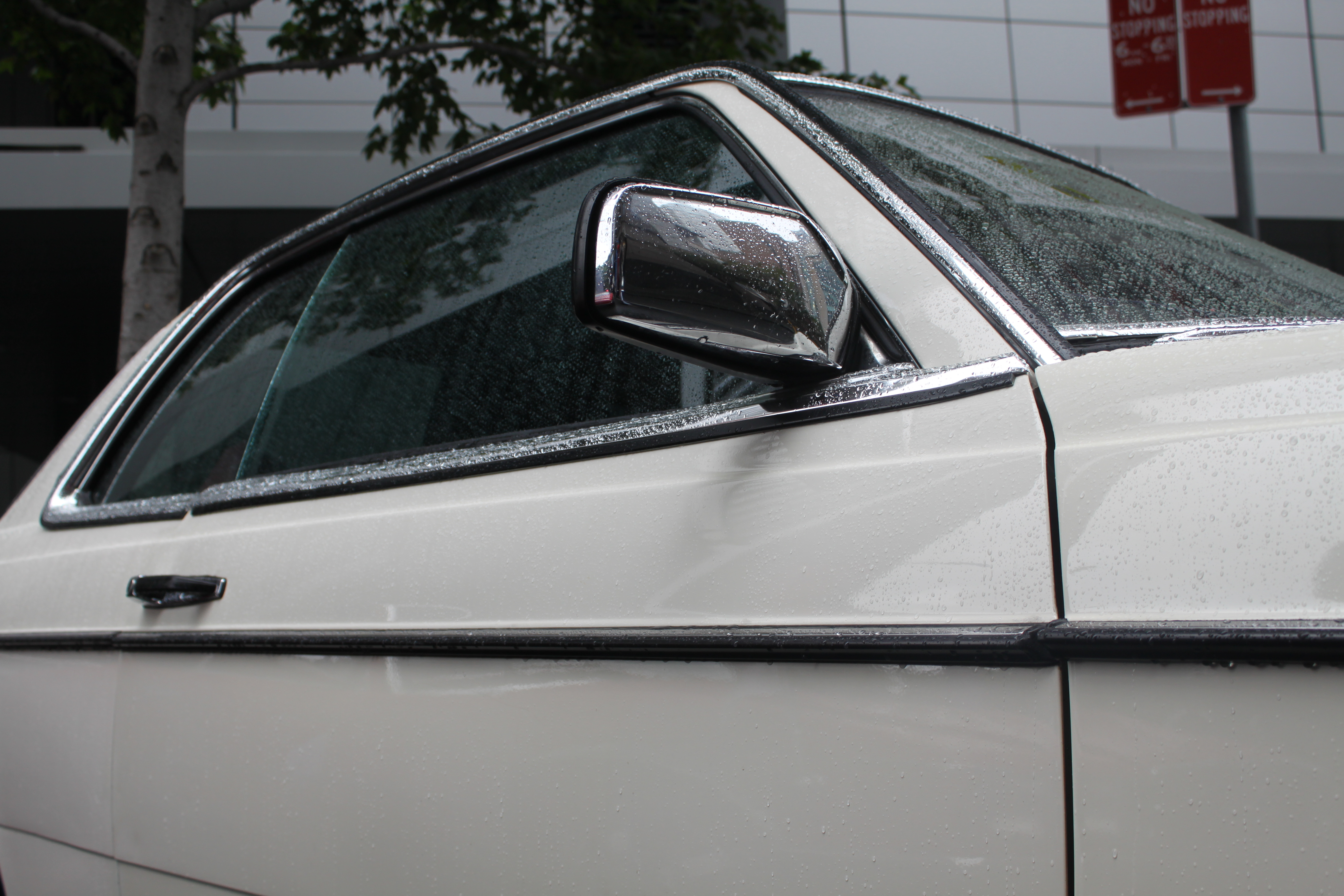 CARnivale, Australia Day, Sydney 2015